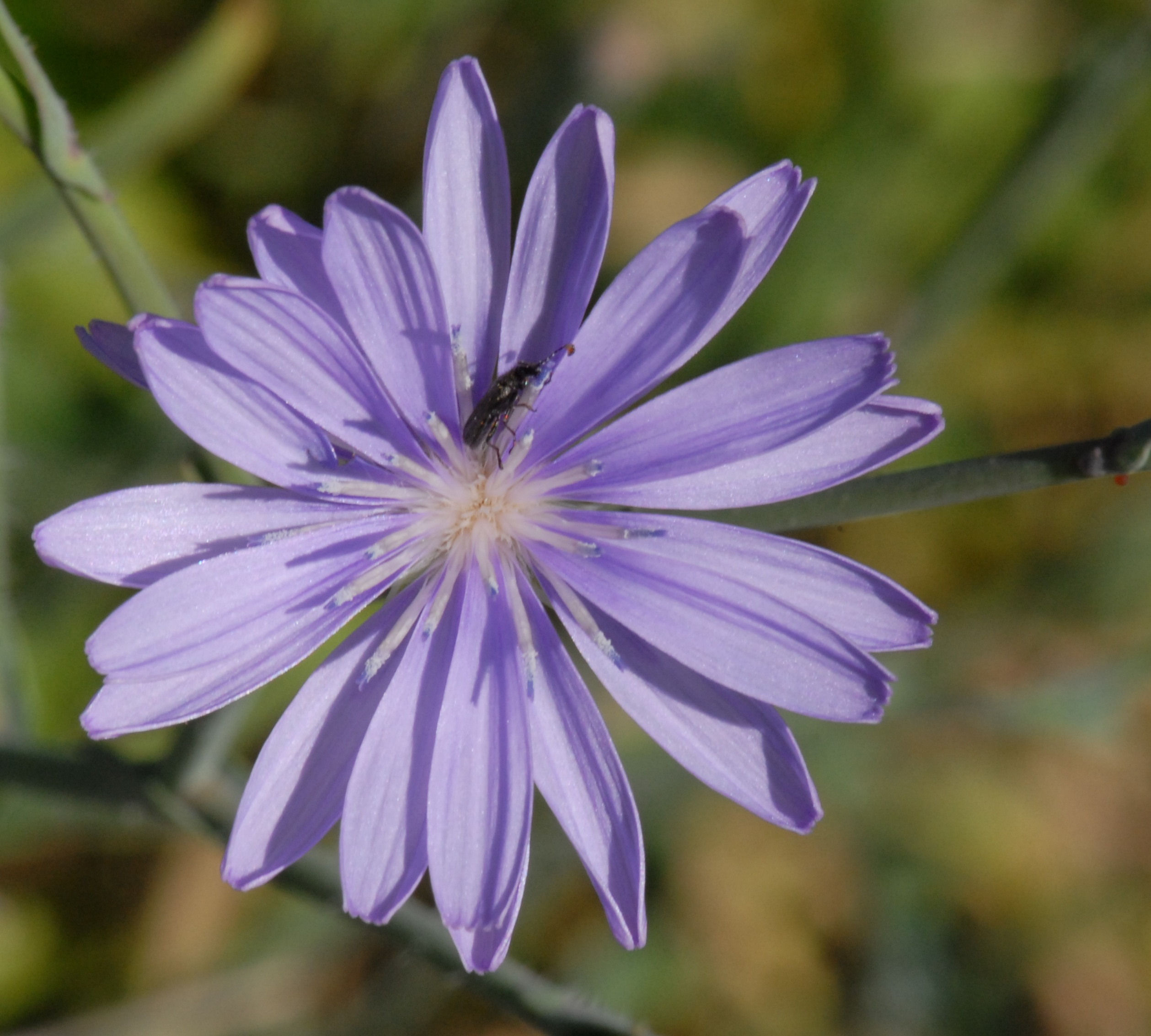 Lactuca tenerrima in Rosia, Gibraltar